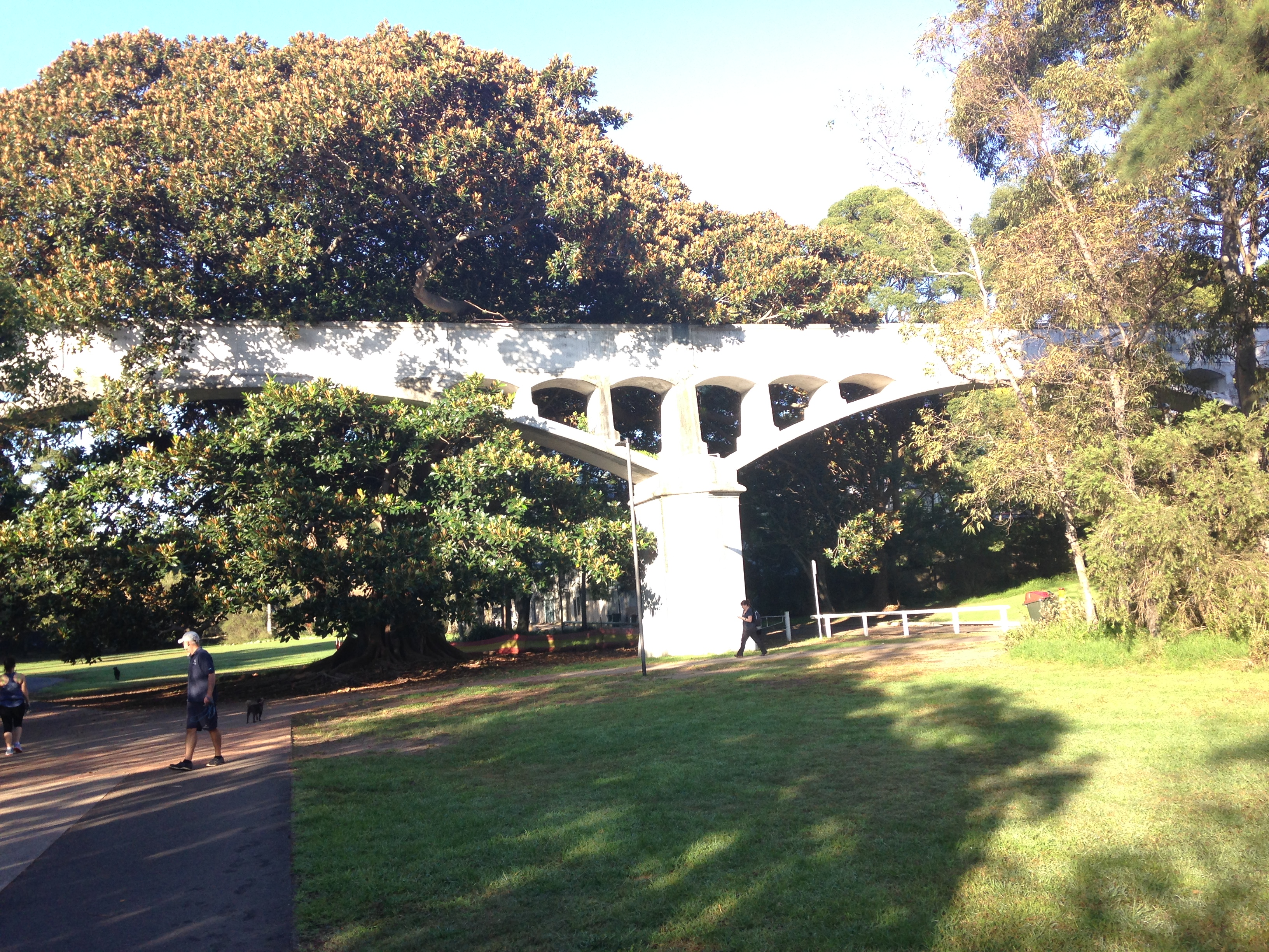 Johnston's Creek Sewer Aqueduct, looking south-east, showing arch and massive Moreton Bay Fig Tree.